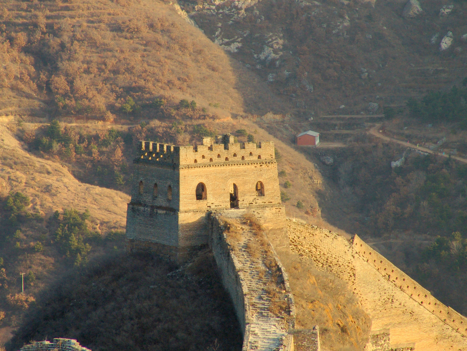 A section of the Great Wall of China between Simatai and Jinshanling